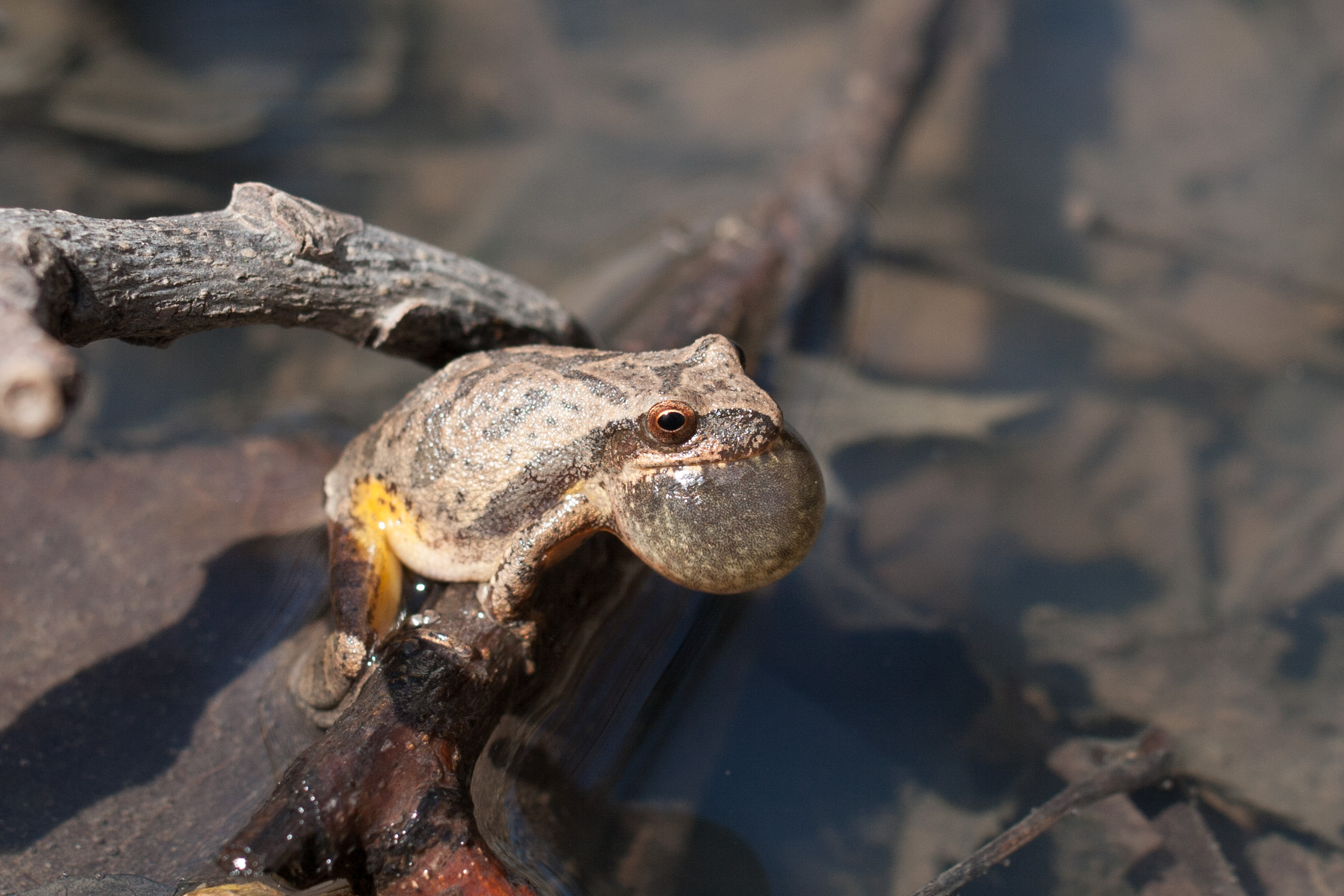 Spring Peeper in the Ozark Mountains, Arkansas